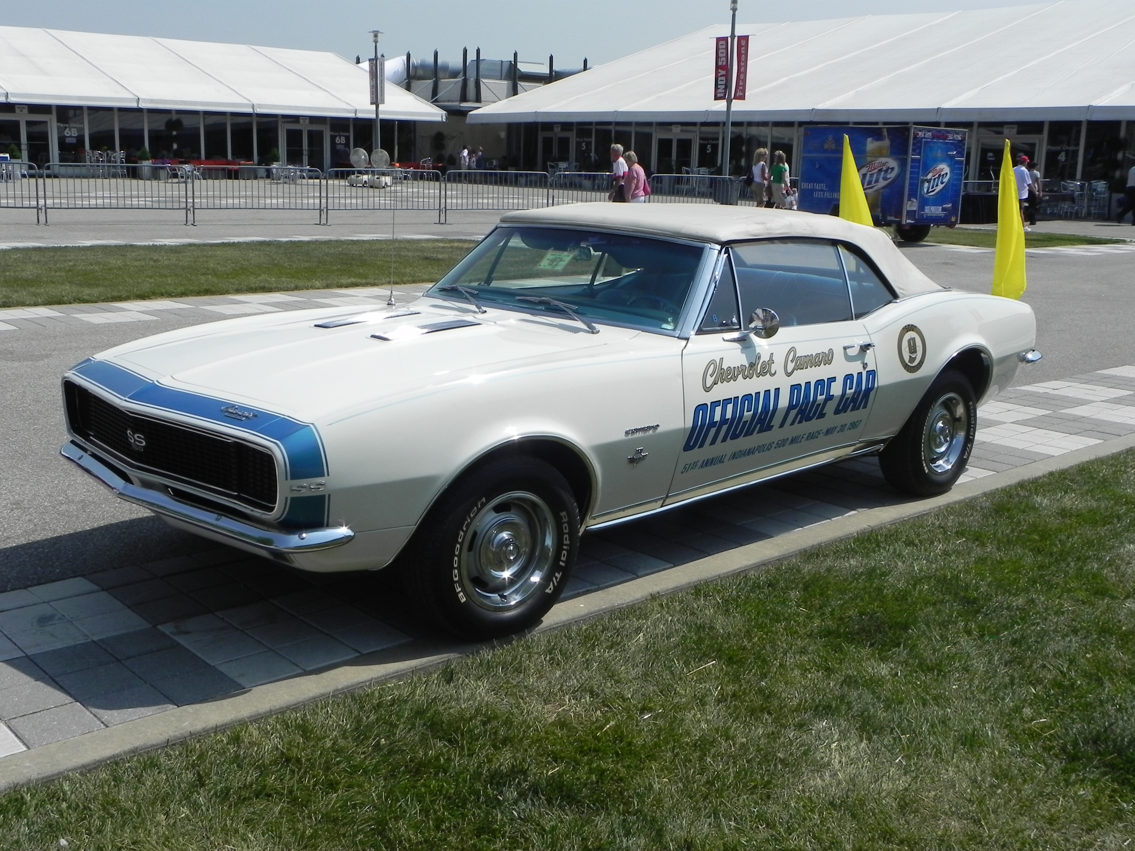 Chevrolet Camaro Pace Car for the 1967 Indianapolis 500